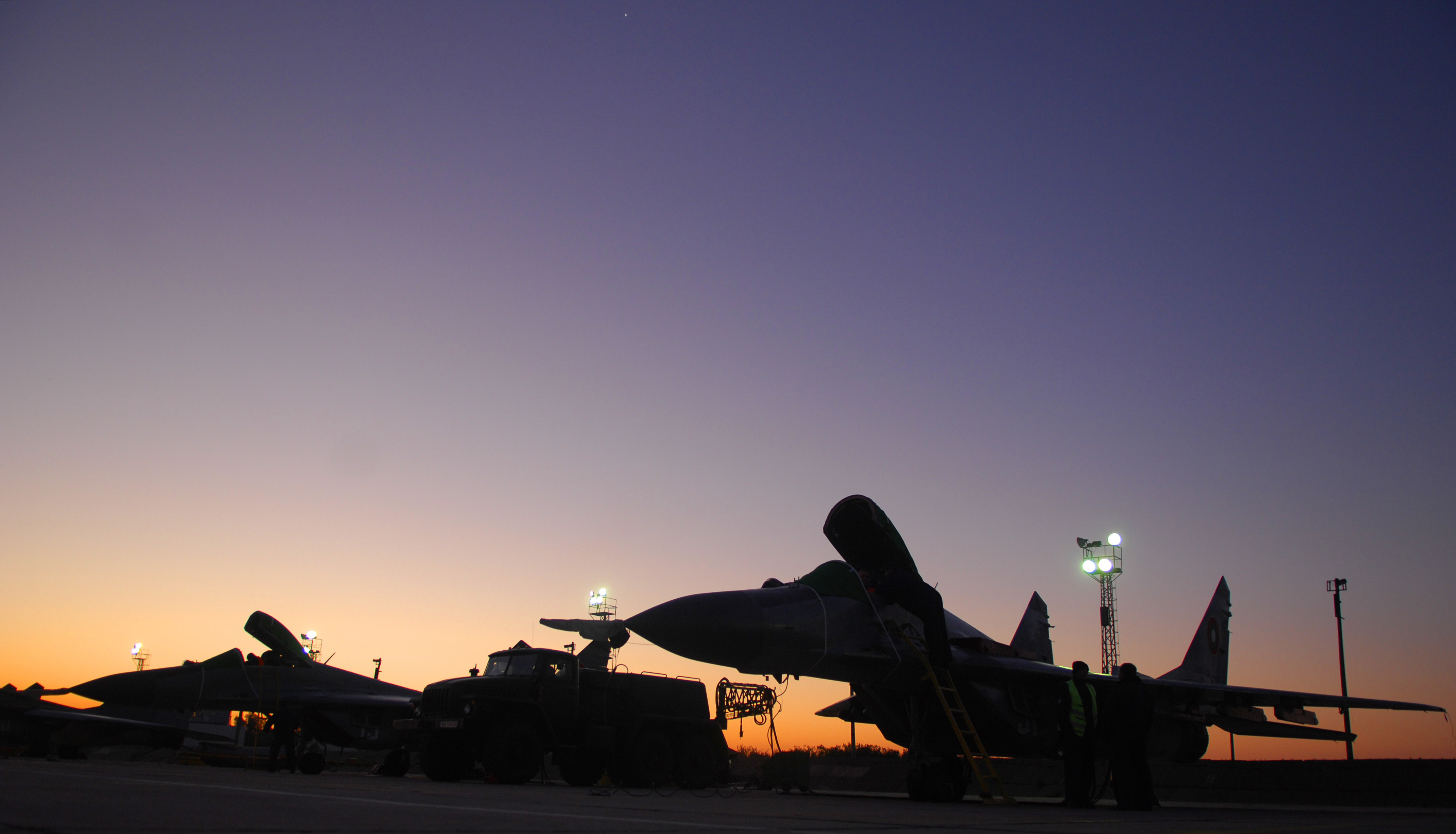 MiG-29 Fulcrum aircraft sit on the ramp at Graf Ignattevo Airfield, Bulgaria, Oct. 18, 2007. Over 250 U.S. Air Force Airmen from Aviano Air Base, Italy, are training with Bulgarian air force airmen during exercise Rodopi Javelin 2007 at the airfield. (U.S. Air Force photo by Staff Sgt. Michael R. Holzworth) (Released)